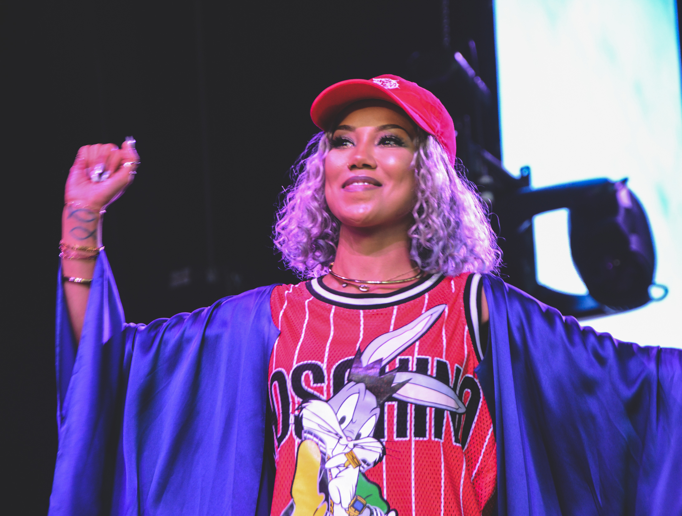 The High Road Summer Tour 2016 at the Molson Canadian Amphitheatre featuring Snoop Dogg, Wiz Khalifa, Jhené Aiko, Casey Veggies and Dj Drama. Photography by Charito Yap